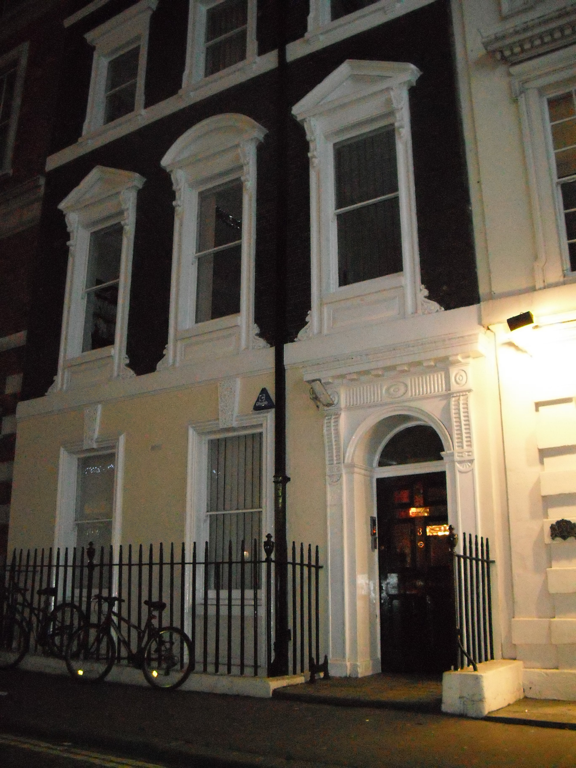 The house in Henieretta Street, Covent Garden London, which was used in the Hitchcock film Frenzy.